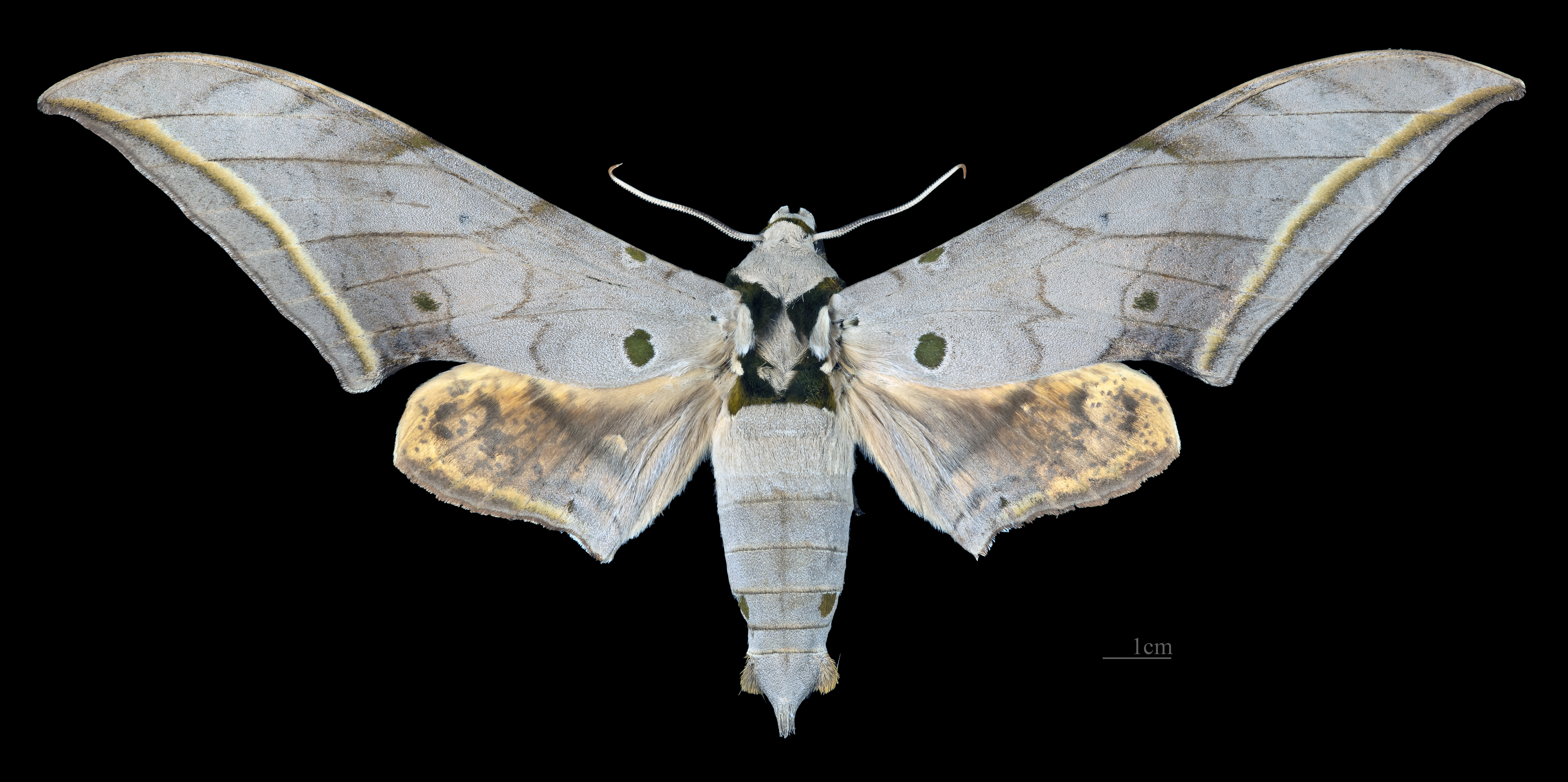 Ambulyx montana - Dorsal side Collection of the Mathematician Laurent Schwartz